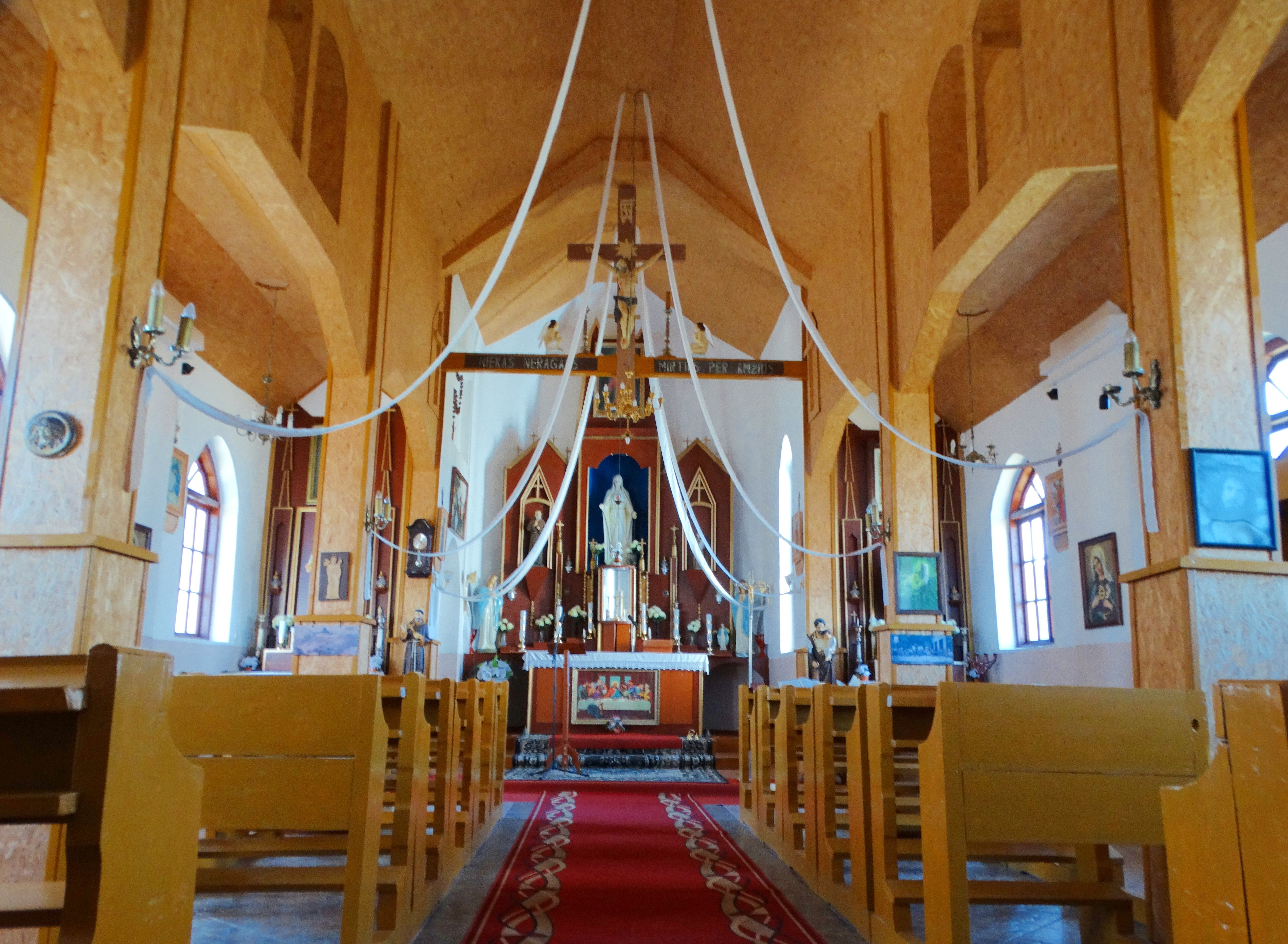 Pijus Stulginskis chapel, Vaiguva, Kelmė district, Lithuania